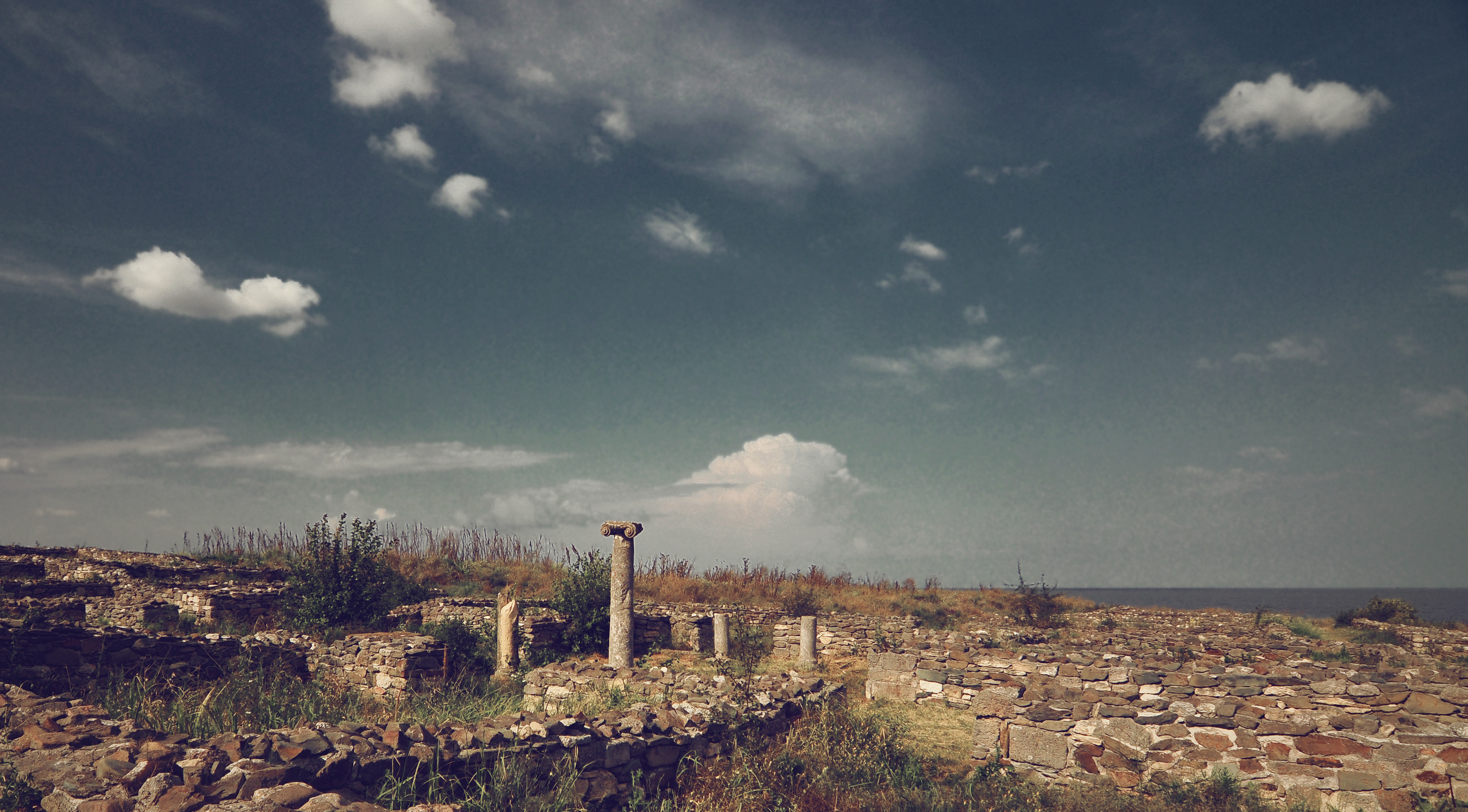 courtyard of a house with Ionic columns in the ruins of Histria, Dobruja region, Romania